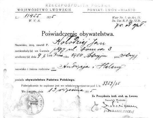 Dokument poświadcza, ze Jan Kołodziej, ur. 9 grudnia 1906 r w Stryju, syn Andrzeja i Heleny, posiada obywatelstwo Państwa Polskiego. Podpis Łobaziewicza, Naczelnika Wydziału za Prezydenta krol. stoł. m. Lwowa. Nr. W.V.A 11455 1935. Zapis w rejestrze nr. 3359/35